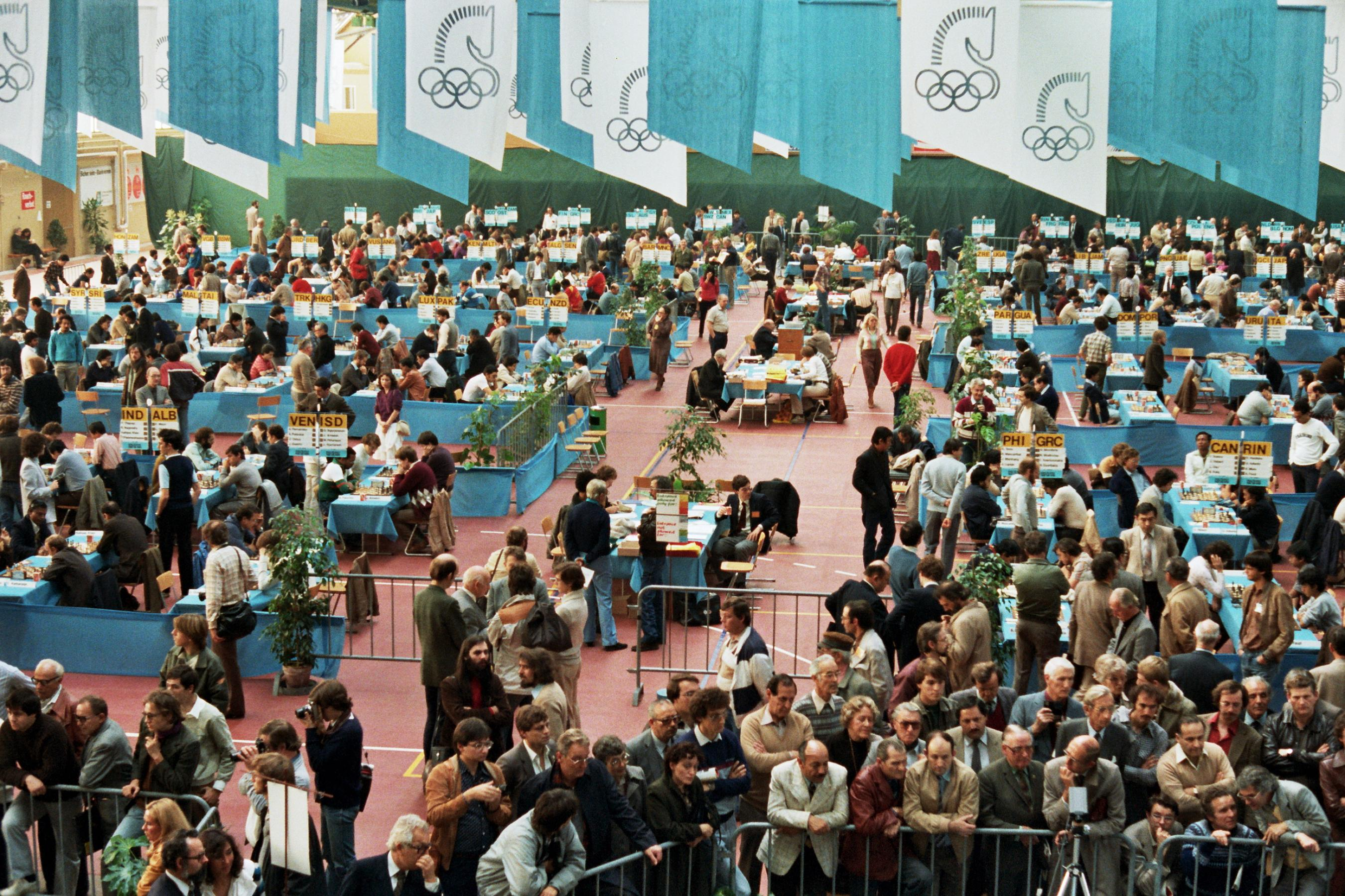 Tournament hall, Chess Olympiad 1982 in Luzern, Photographer Gerhard Hund.